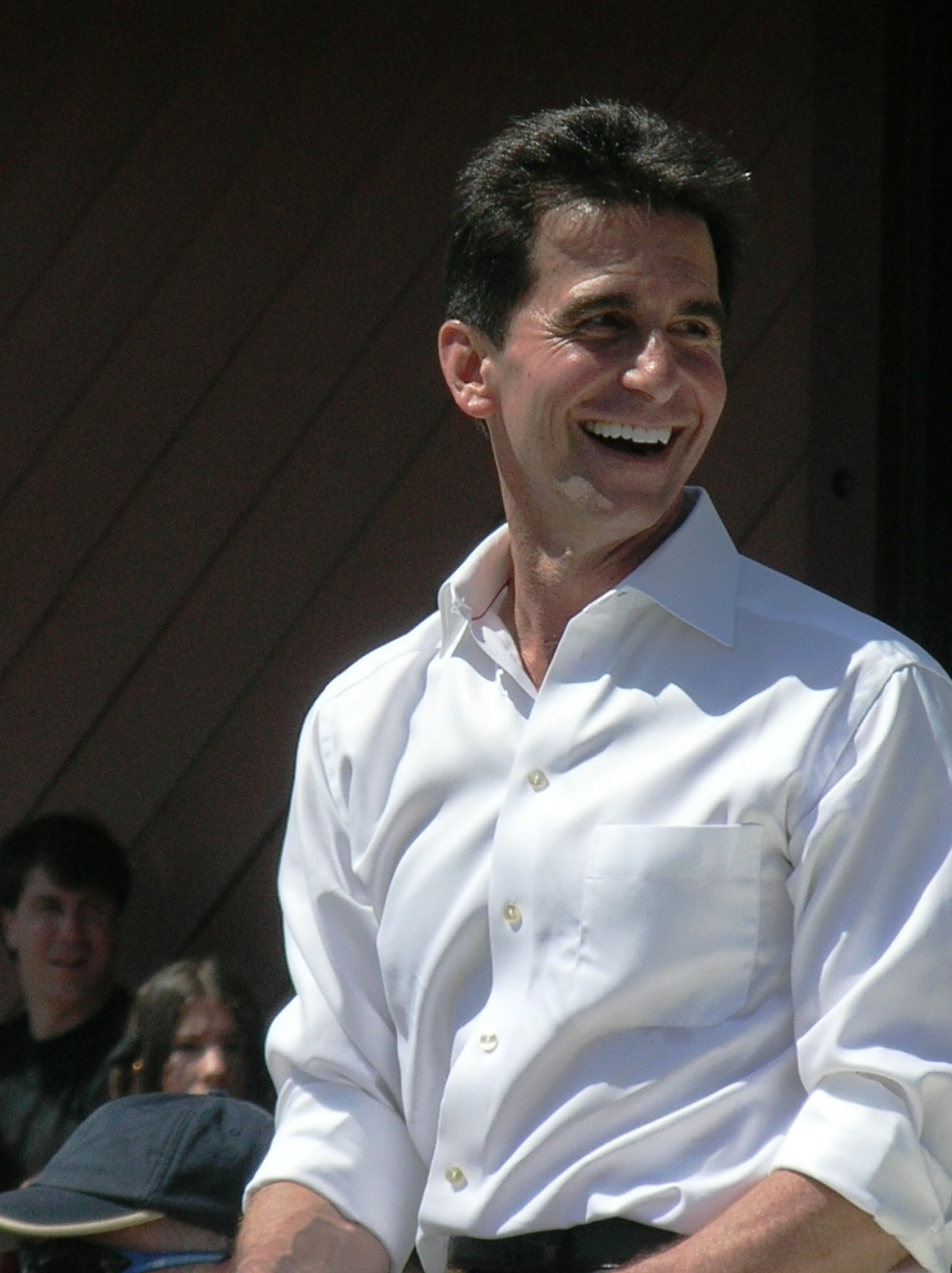 California State Senator Mark Leno at the Grand Parade of the 2010 Northern California Cherry Blossom Festival in San Francisco, California.